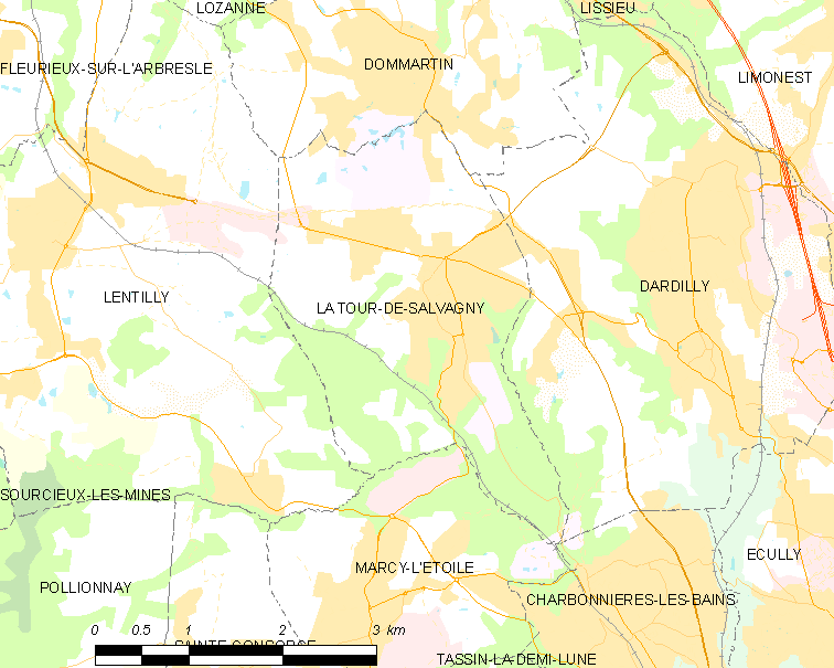 Map of French municipality